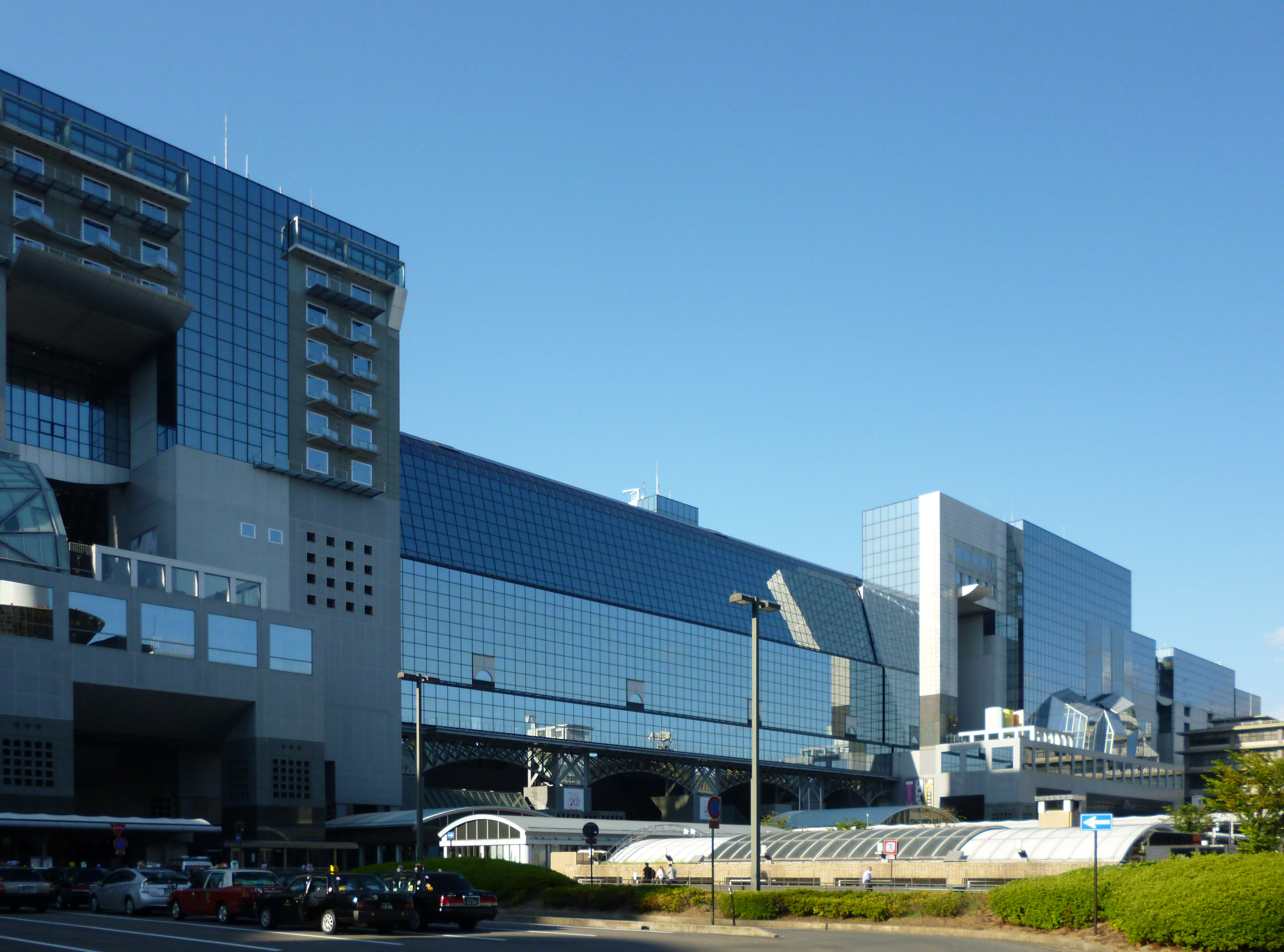 The north side of Kyōto Station in Kyoto, Japan.